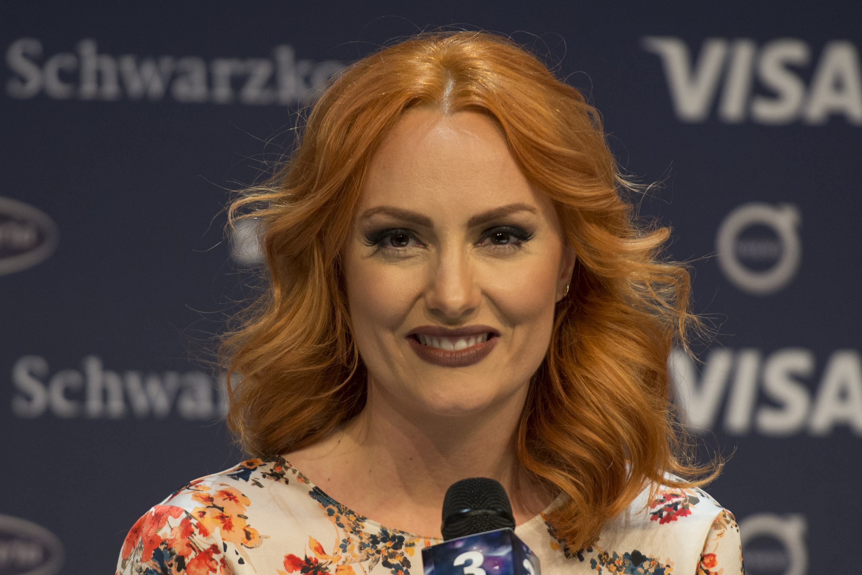 Eneda Tarifa at a Meet & Greet during the Eurovision Song Contest 2016 in Stockholm. (Help translate this text)